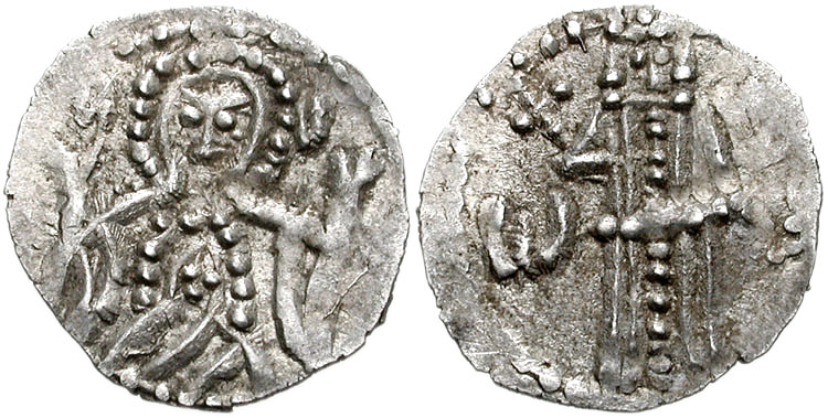 A coin of Ivan Shishman of Bulgaria, 1371-1393. AR Denar (15mm, 0.56 g, 5h). Half-length facing bust of Virgin facing, orans, Holy Infant in lap / Ivan standing facing, holding cross-tipped sceptre; imperial monogram in left field, [imperial monograms] in right field. Raduchev 1.15.11-12; Metcalf, Southeastern pl. 8, 19. Good VF, lightly toned.